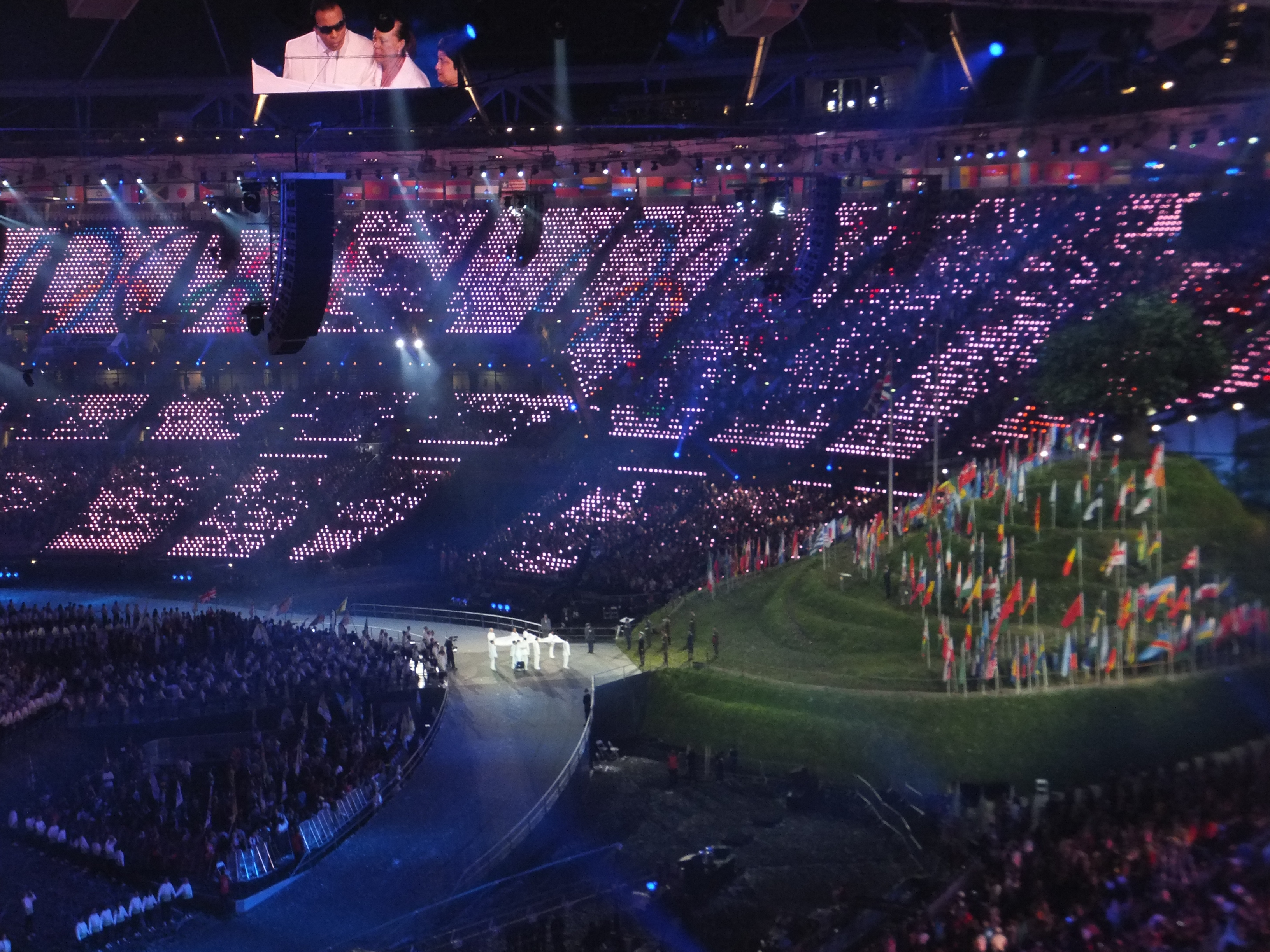 Muhammad Ali receives the Olympic Flag at the London 2012 Olympic Games Opening Ceremony, Olympic Stadium, Friday 27 July 2012.